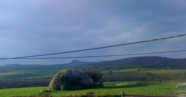 Colour digital photograph of small granite dome in Luxulyan, Cornwall